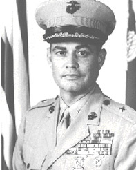 Official photograph of Brigadier General Edwin H. Simmons, United States Marine Corps.